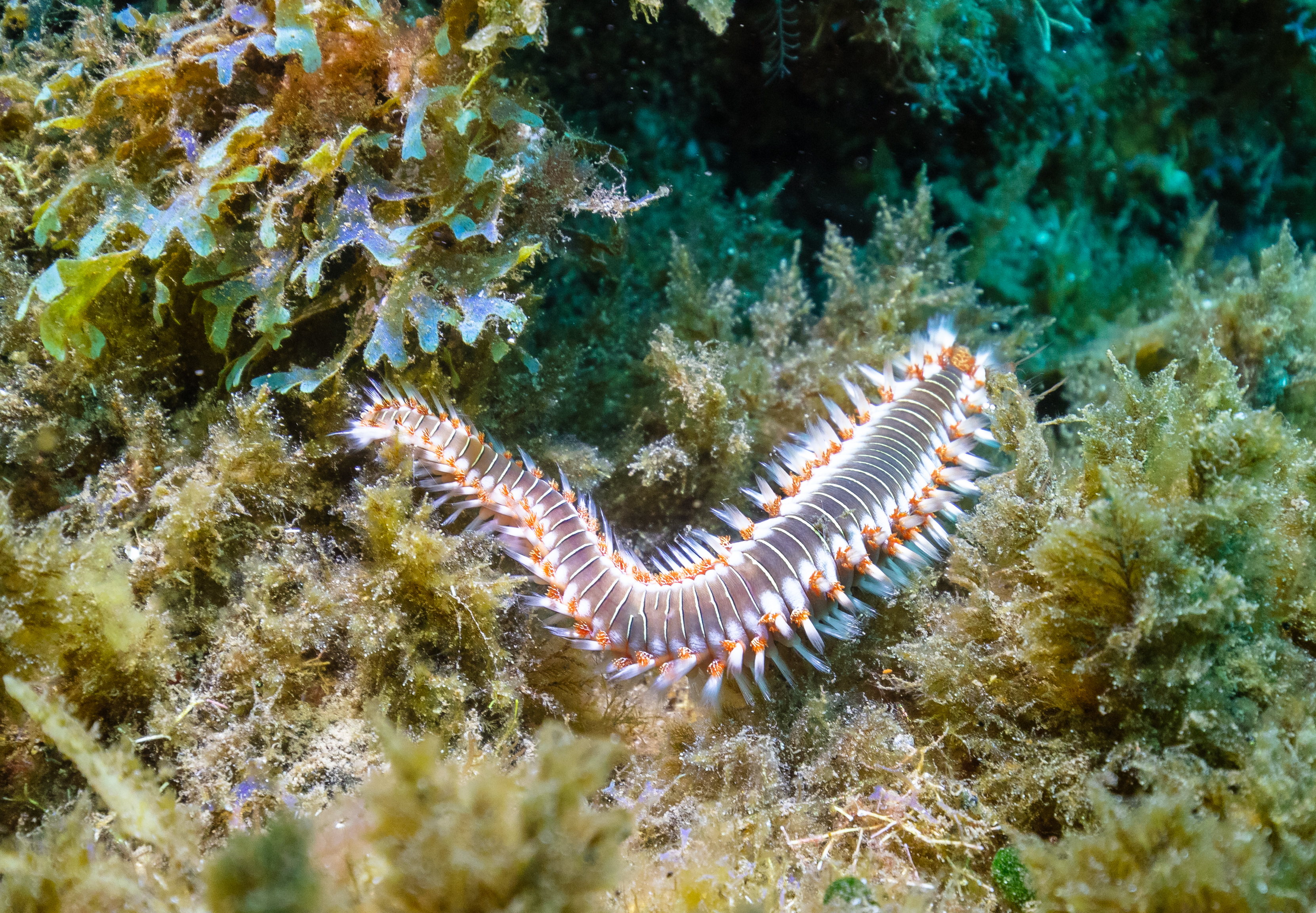 Bearded fireworm (Hermodice carunculata), Madeira, Portugal